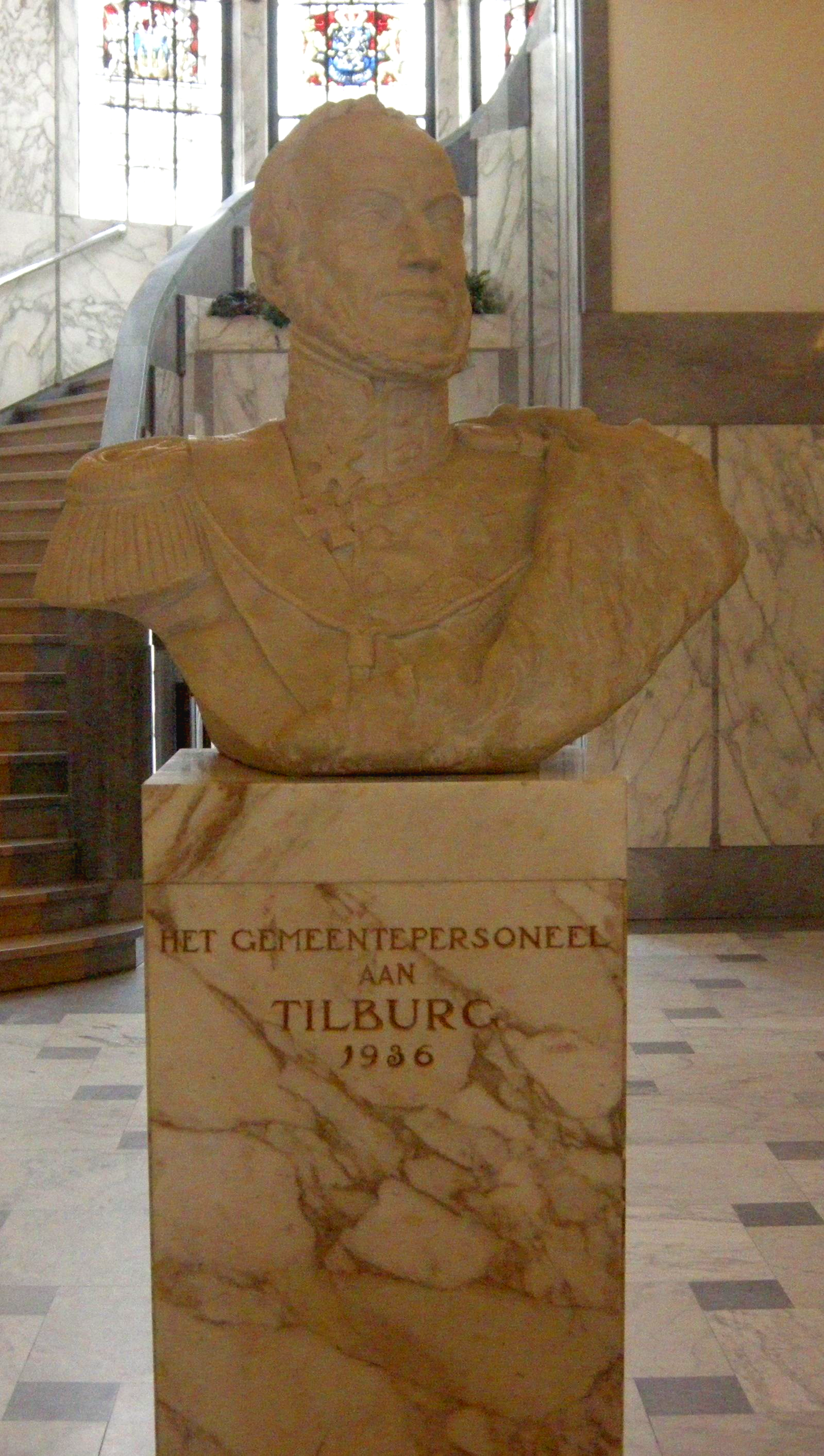 Bust sculpture of King William II of the Netherlands.